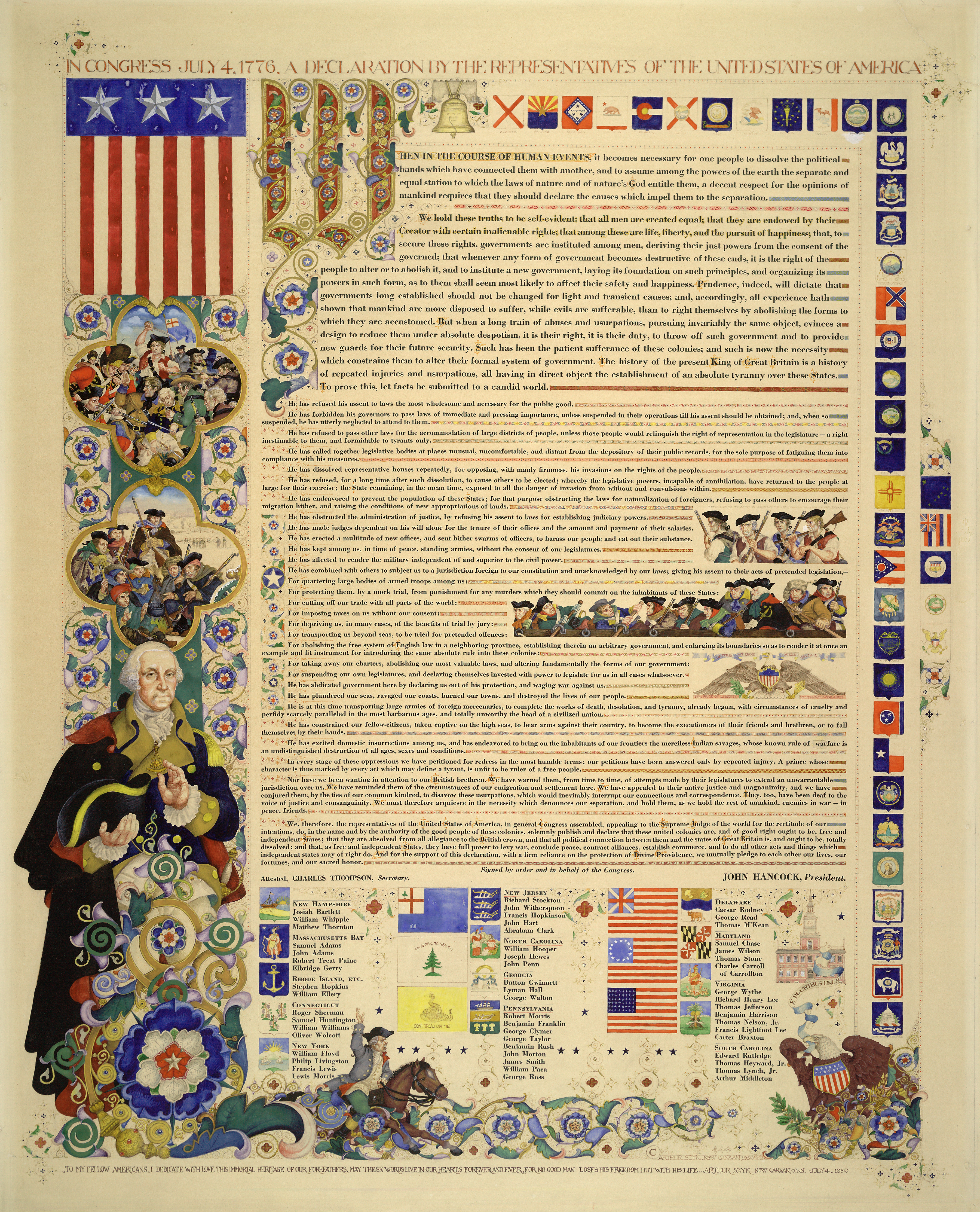 Arthur Szyk, 1950, United States Declaration of Independence. Library of Congress